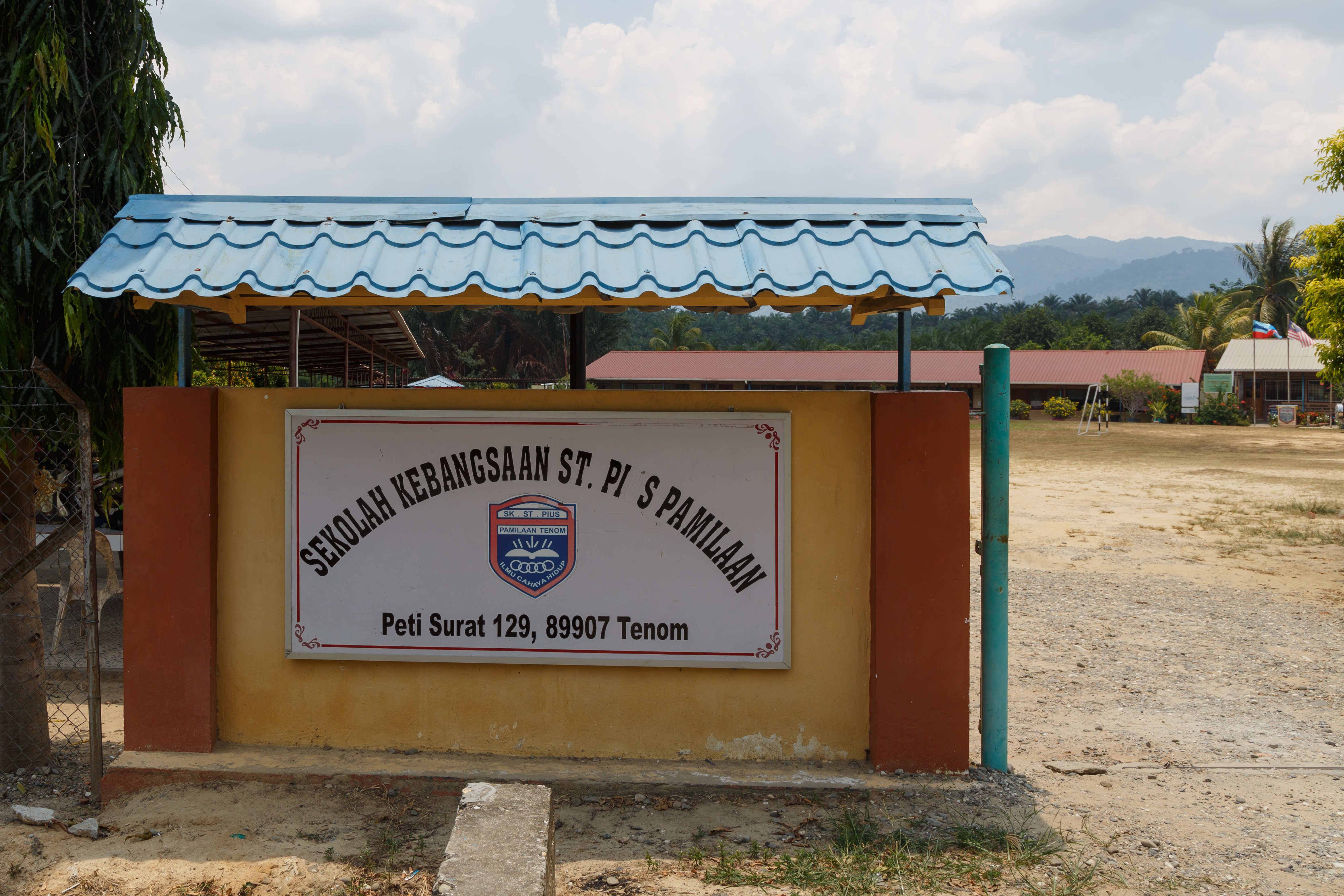 Kg. Pulong, Sabah: Gate to SK St. Pius Pamilaan, a primary school in Sabah